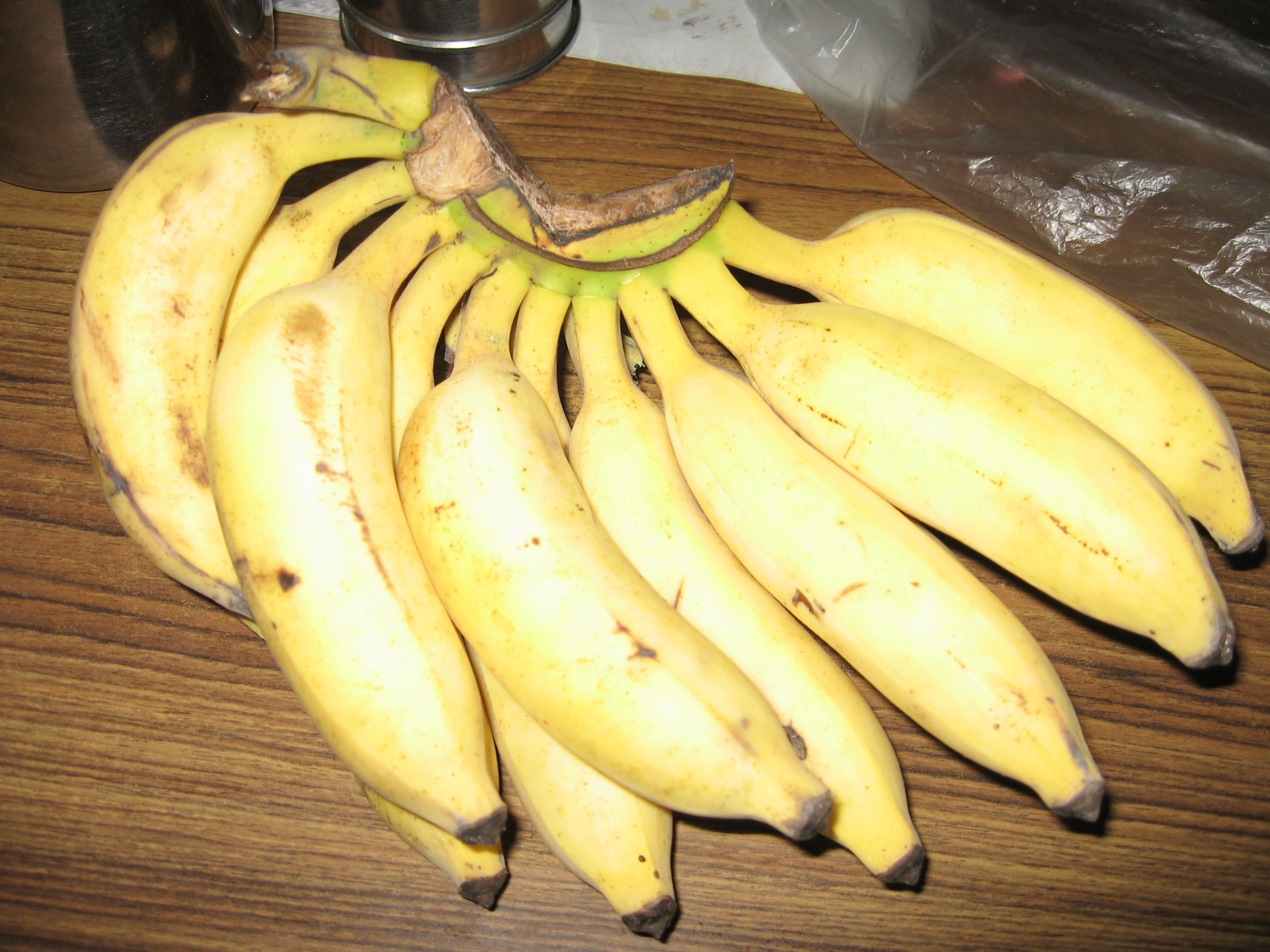 The rasa baLe haNNu a variety of banana, native to Karnataka state, India.